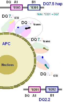 Image shows how DQ2.5 (trans) can be formed from the haplotype DQ2.2/DQ7.5 phenotype. The circled DQ isoform (receptor) is DQ2.5 trans. DQB1*0202 bearing molecules have a change outside the binding cleft that make it identical in function to DQB1*0201 of DQA1*0501:DQB1*0201 phenotype.